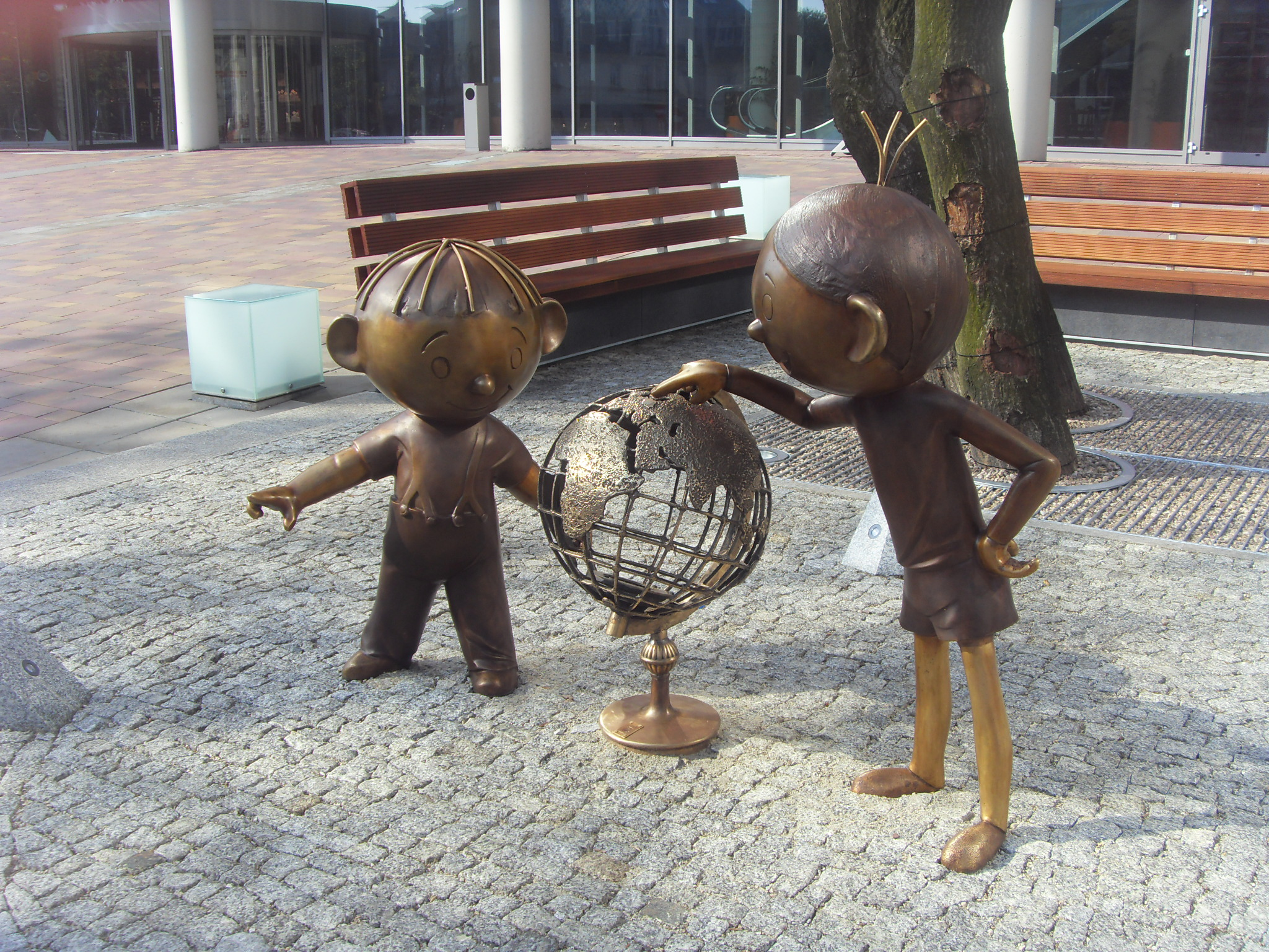 Bolek and Lolek monument in Bielsko-Biała